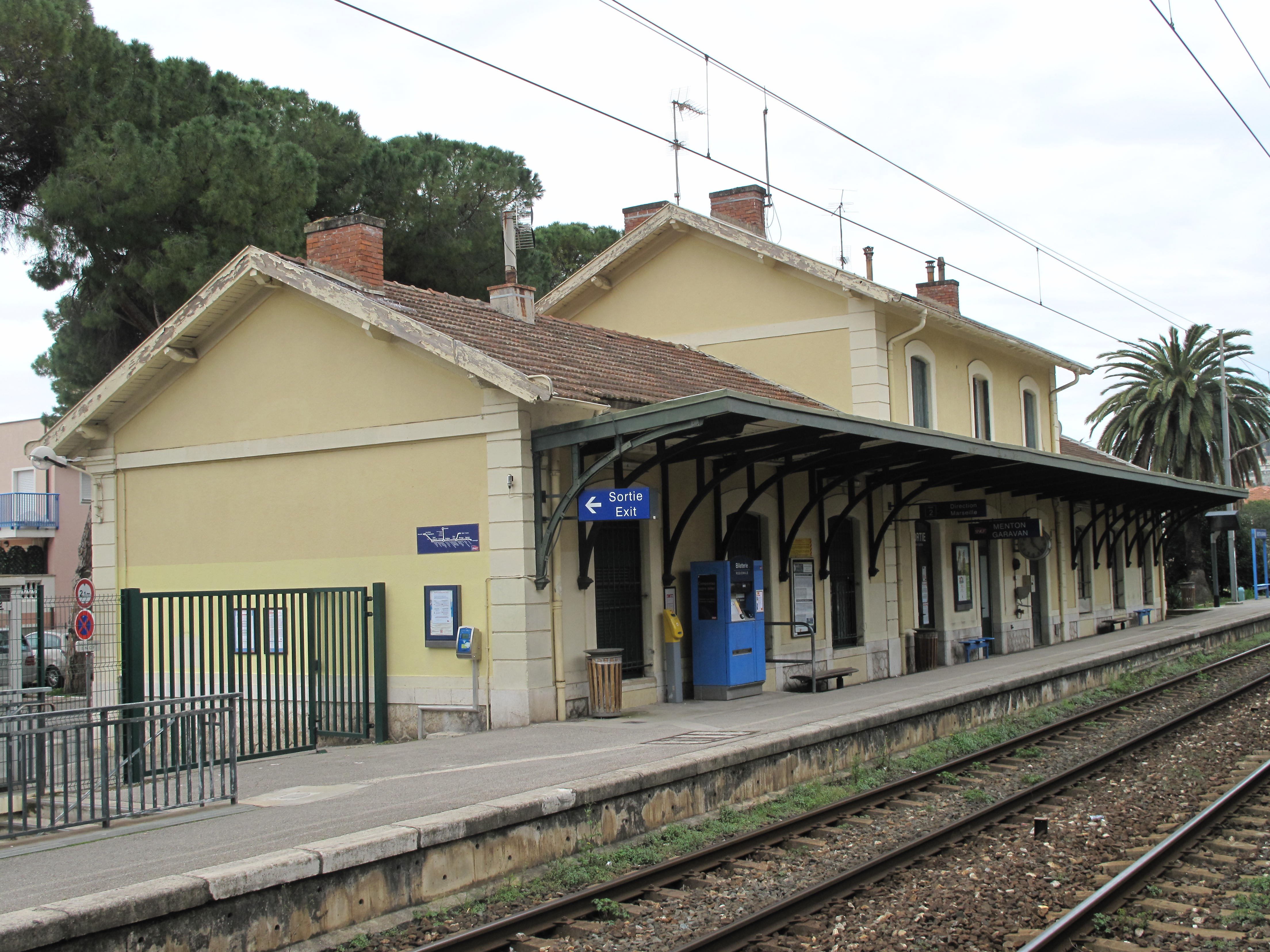 Train station of Menton-Garavant Menton (Alpes-Maritimes, France).